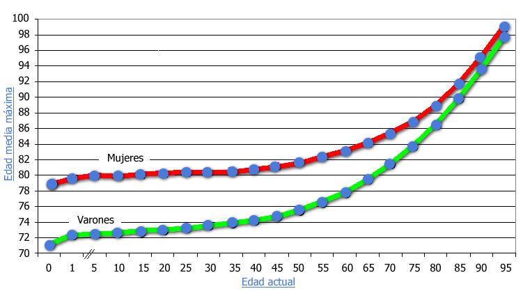 Given a current age "x", it determines what it is the maximal age (average) that a person reaches in the city.